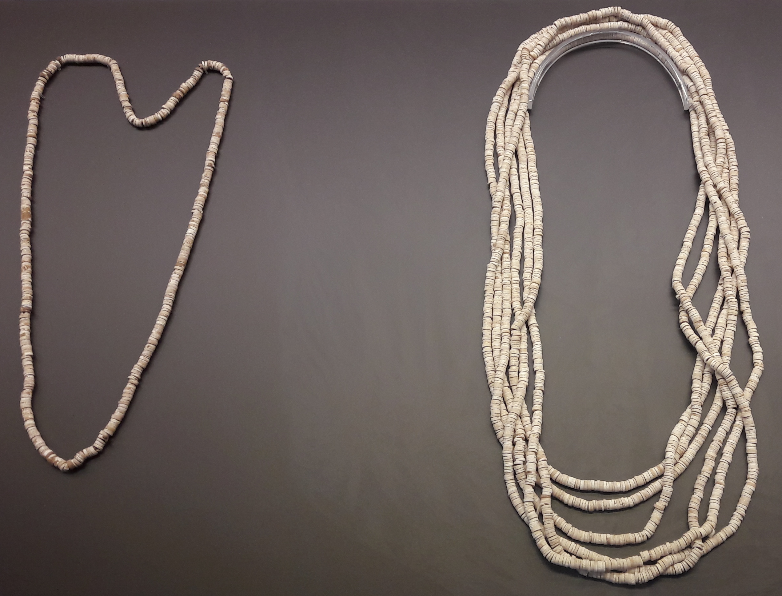 Necklaces. Stone, shell and bone. Neolithic 7.000-5.500 BP. From Cave of Hoyo de la Mina, Málaga. Museo de Málaga, Spain.